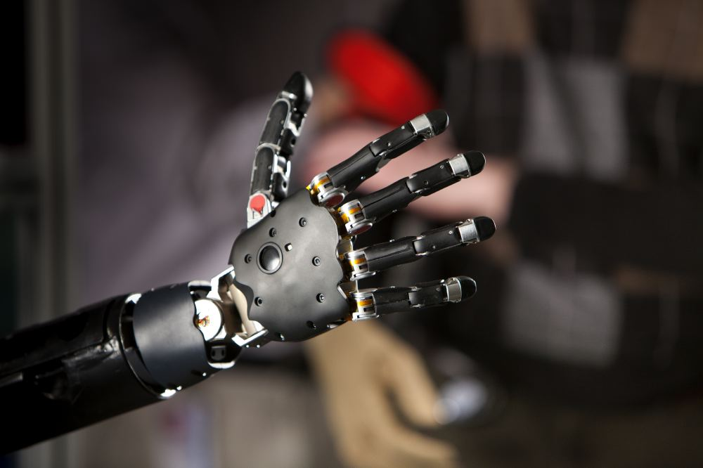 FDA launched a medical device innovation initiative that included pathway for new, breakthrough medical devices. The agency also announced the first project that will pilot the innovation program. It is a brain-controlled, prosthetic arm funded by the DARPA. Photo courtesy of The Johns Hopkins University Applied Physics Laboratory (JHU/APL).